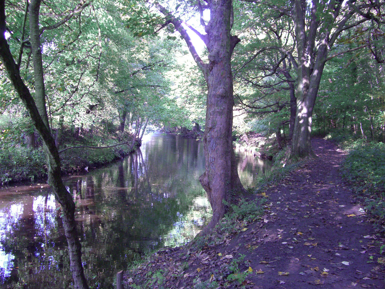 The River Don flowing serenely through Beeley Wood on the outskirts of Sheffield